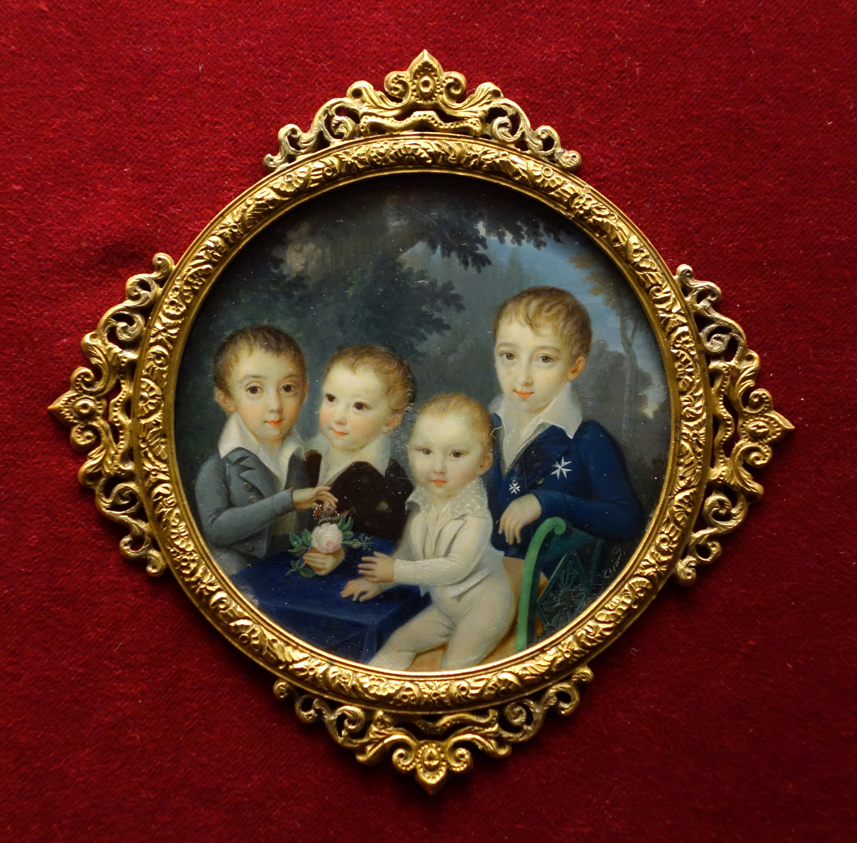 Exhibit in the Cincinnati Art Museum, Cincinnati, Ohio, USA. This artwork is in the public domain because the artist died more than 70 years ago.